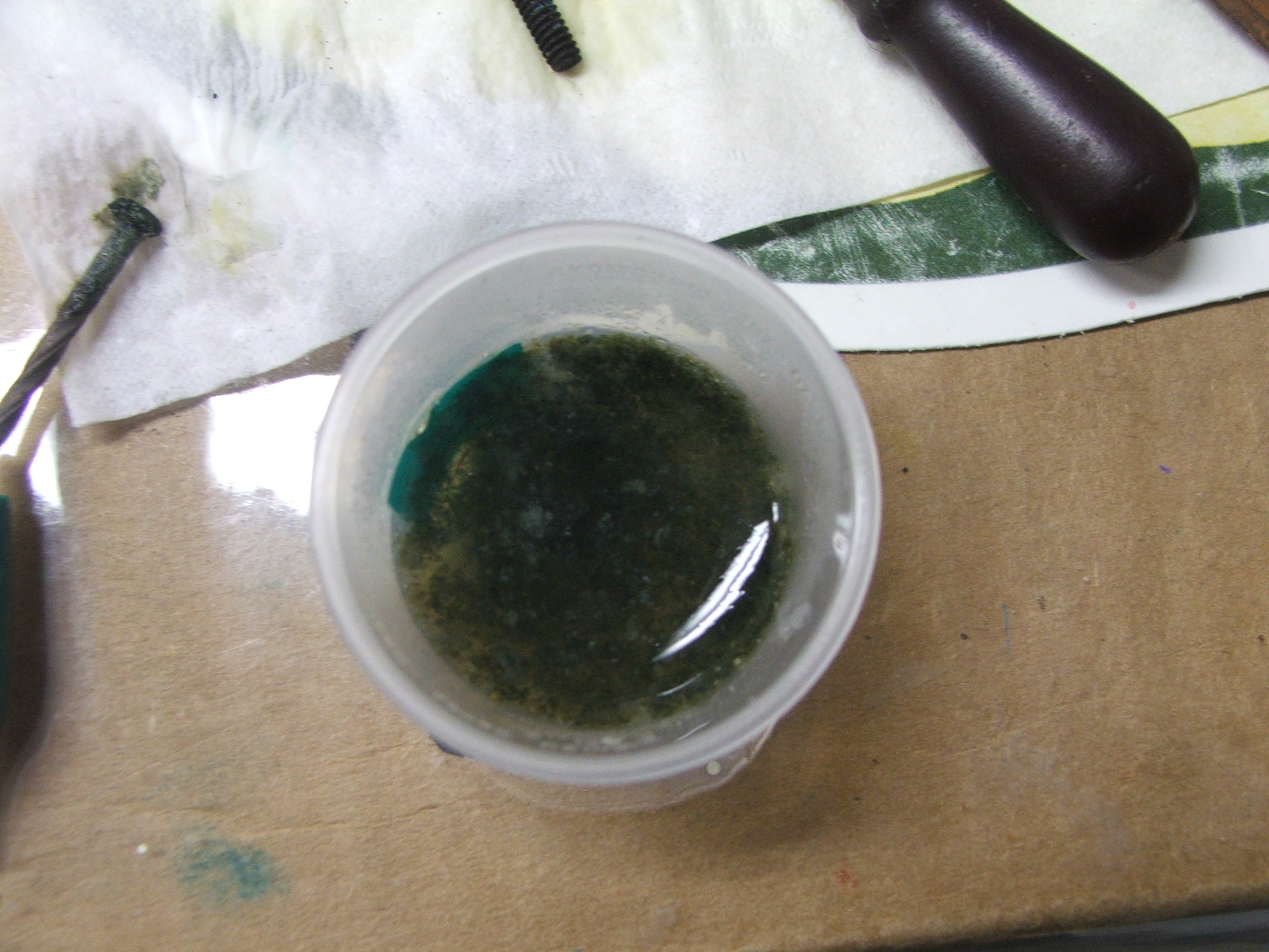 A container with an iron(II) hydroxide precipitate. It was made by electrolysis of a solution of sodium carbonate with an iron anode.